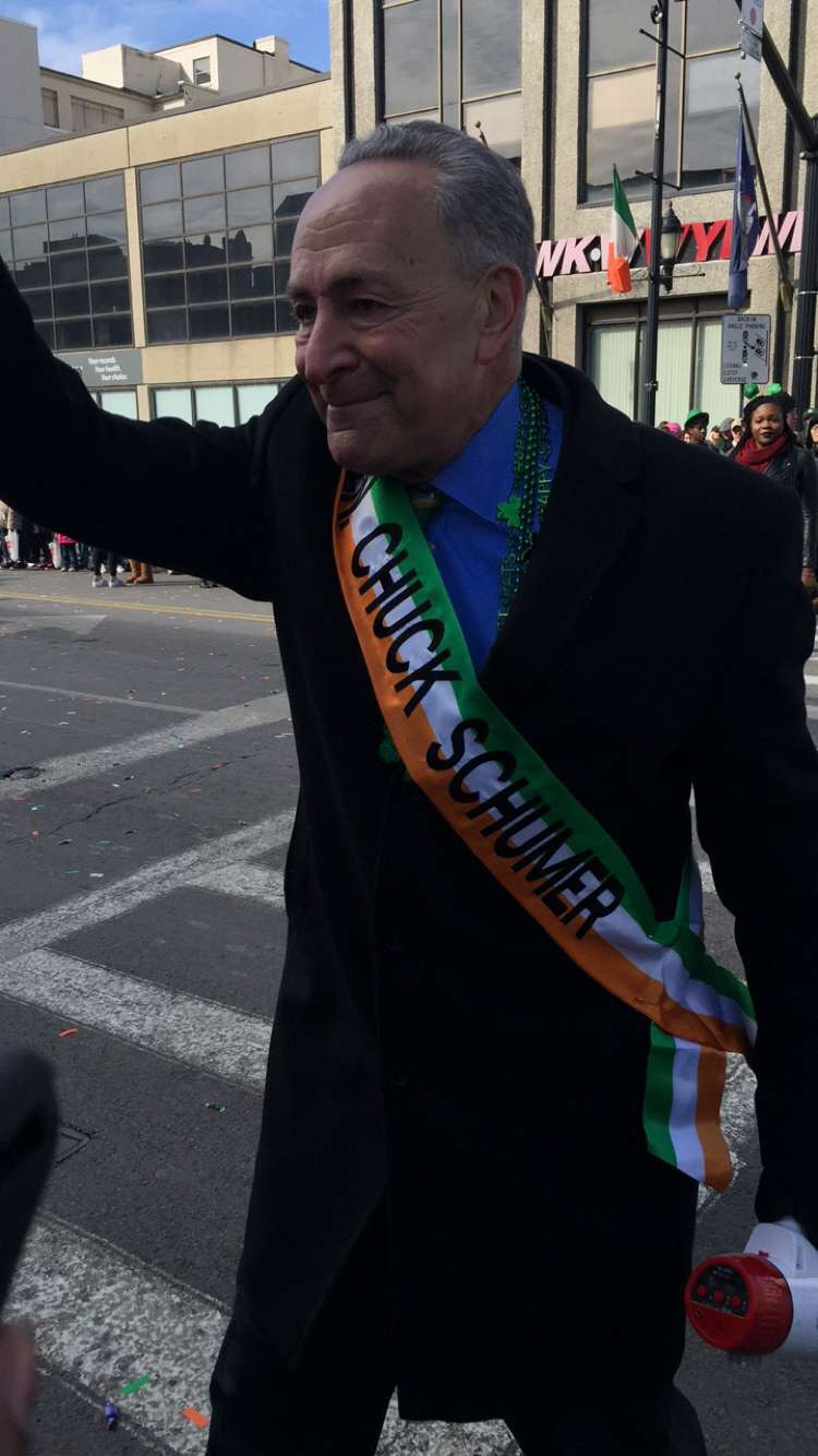 US Senator Chuck Schumer in Binghamton, New York marching on Parade Day.